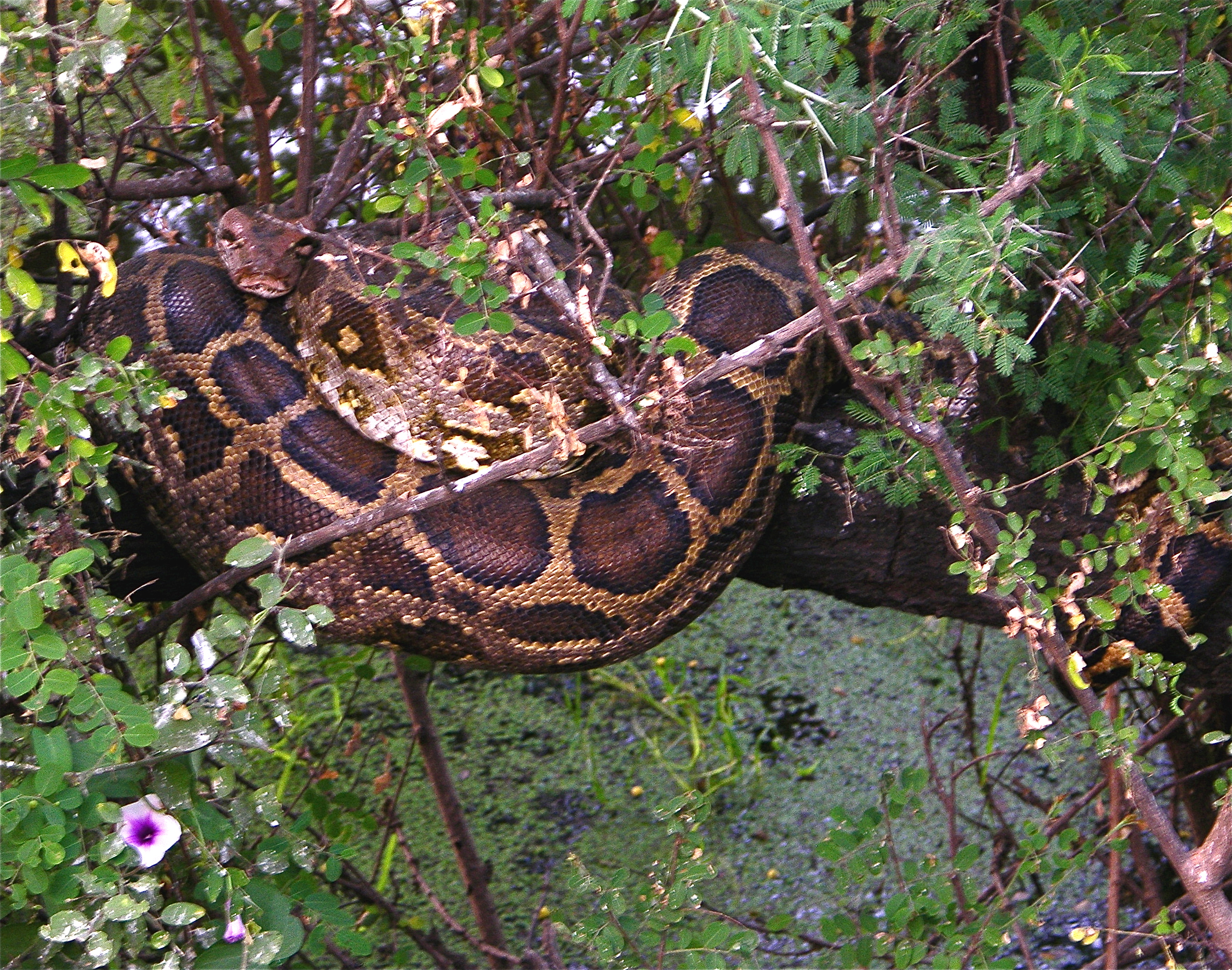 Adult Indian Python (Python molurus molurus) coiled up in a tree. Keoladeo National Park, India.